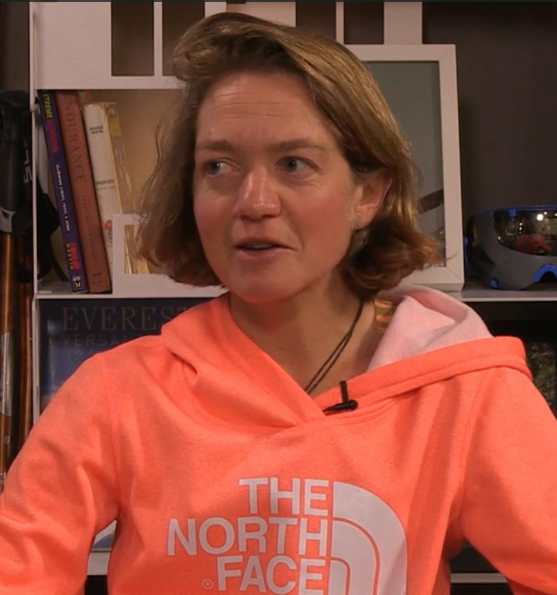 Lizzy Hawker, interviewed by EpicTV in 2012